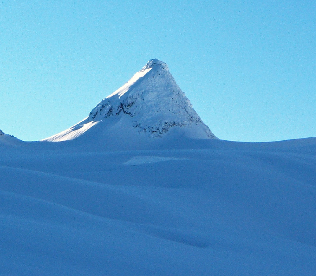 North side of Mount Hartzell from the Matier Glacier